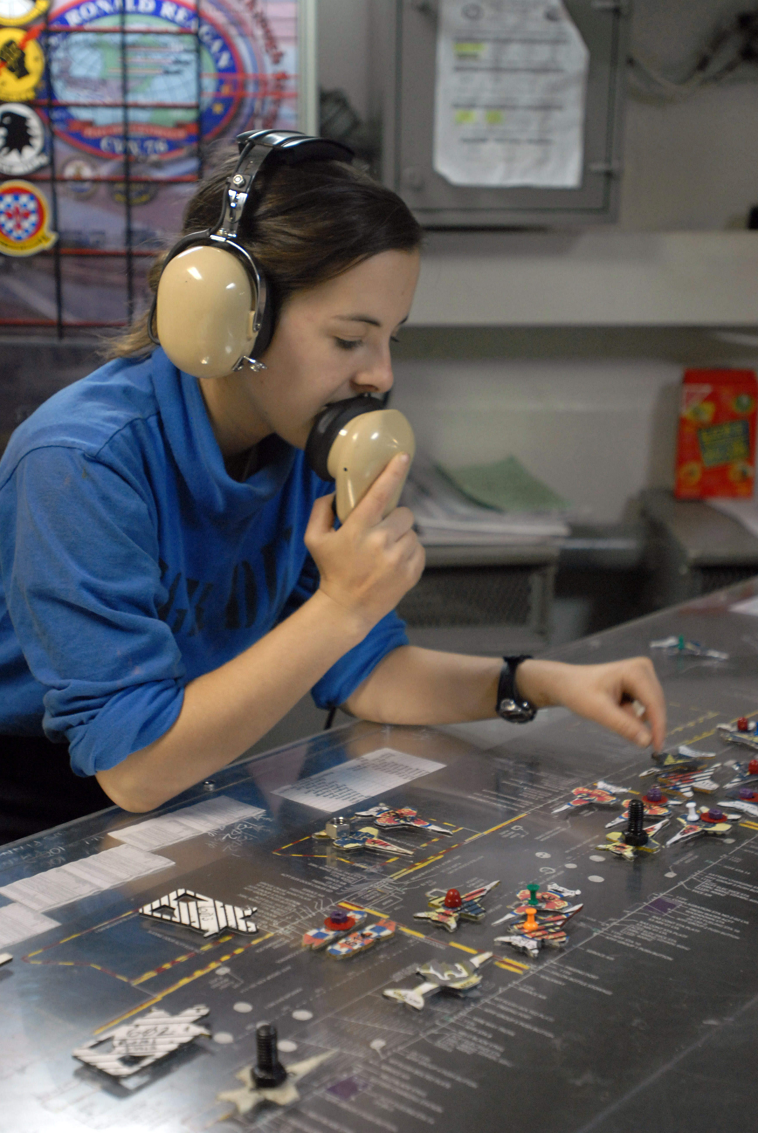 U.S. Navy Airman Amber Wilcox updates the "Ouija board" in hangar deck control aboard the aircraft carrier USS Ronald Reagan (CVN 76) while underway in the Gulf of Oman on Oct. 10, 2008. The Ronald Reagan Carrier Strike Group, which is deployed to the U.S. 5th Fleet area of responsibility, is providing support to coalition forces on the ground in Afghanistan.